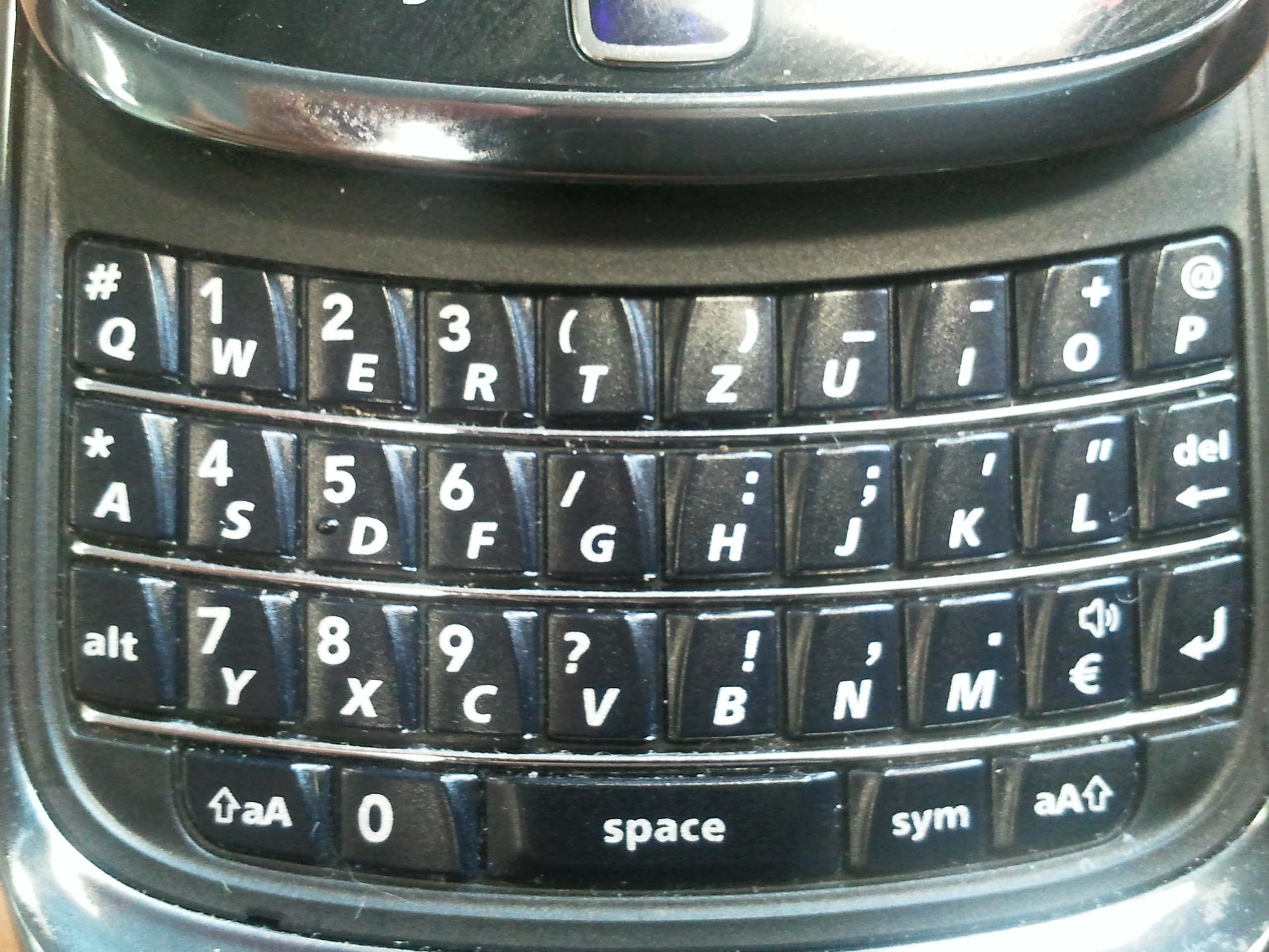 An image of a mobile phone's QWERTZ keyboard. The phone model is a RIM BlackBerry Torch (9800)